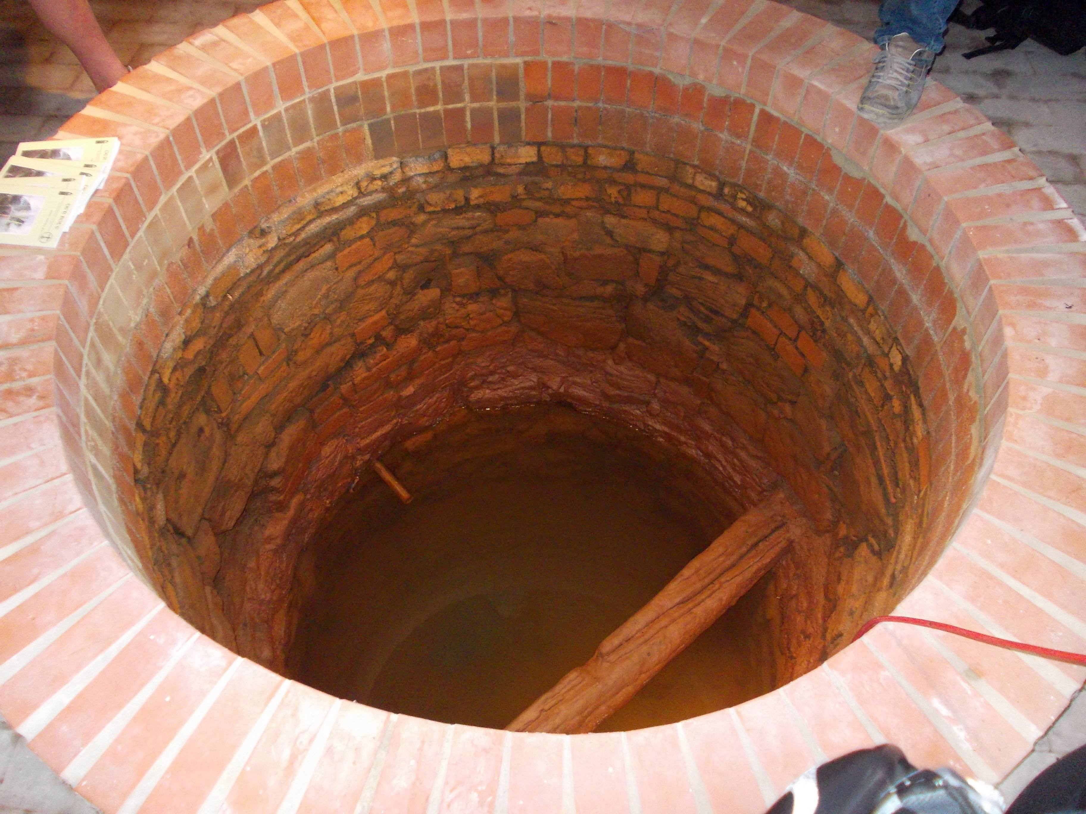 Gesundbrunnen well house in Halle/Saale (Saxony-Anhalt)